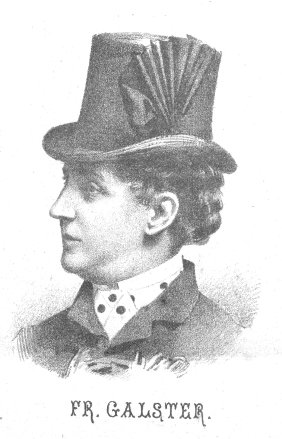 Portrait of Georgine Galster (1848-1917), German actress. Cropped from a gallery of actors performing in Prague and Carlsbad.